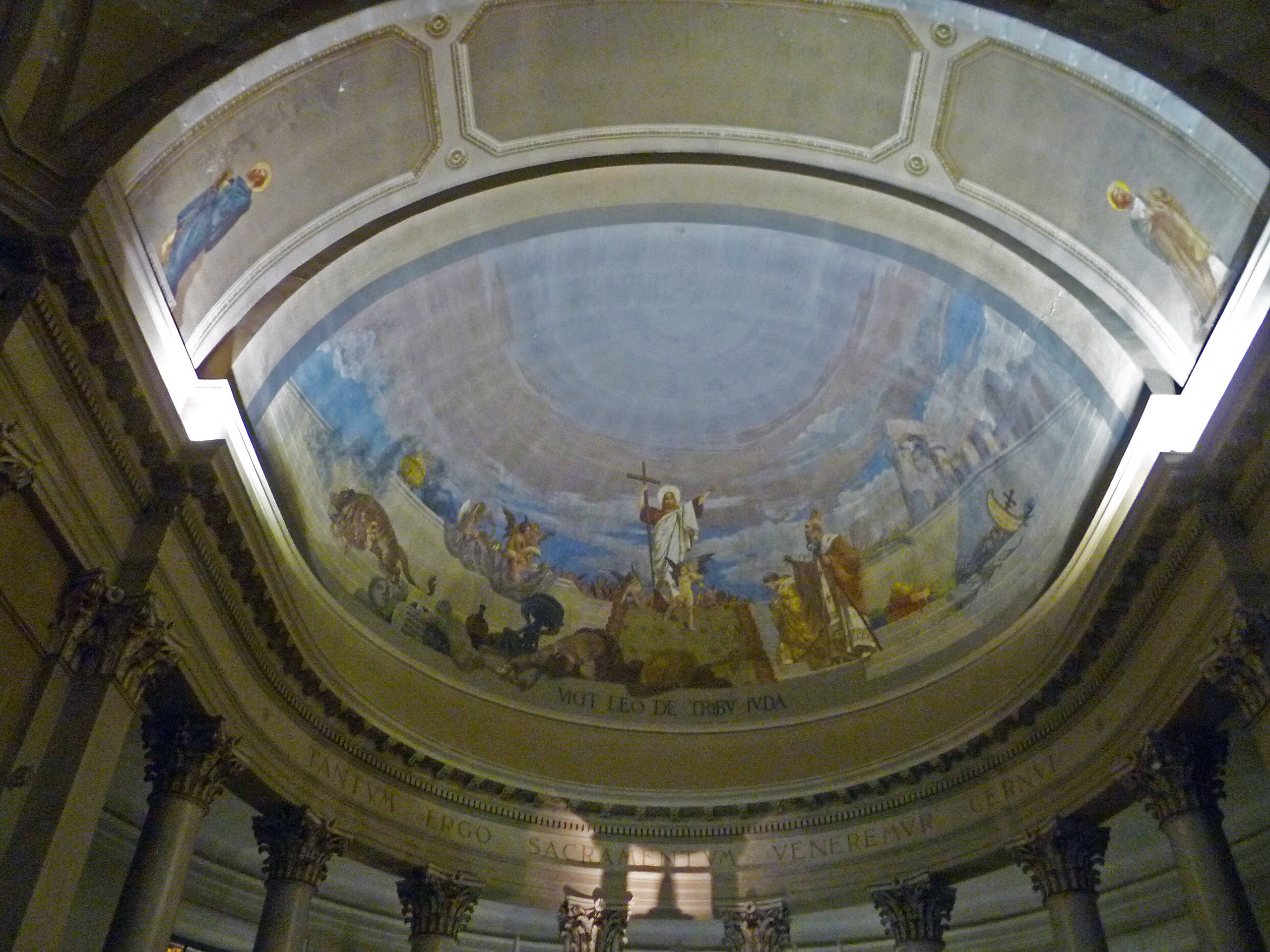 Half-dome of the apse, representing Christ triumphing over Paganism, (by Giovanni Bevilacqua, early 1900s) in the Church of S. Nicolò e S. Severo, Bardolino, Italy